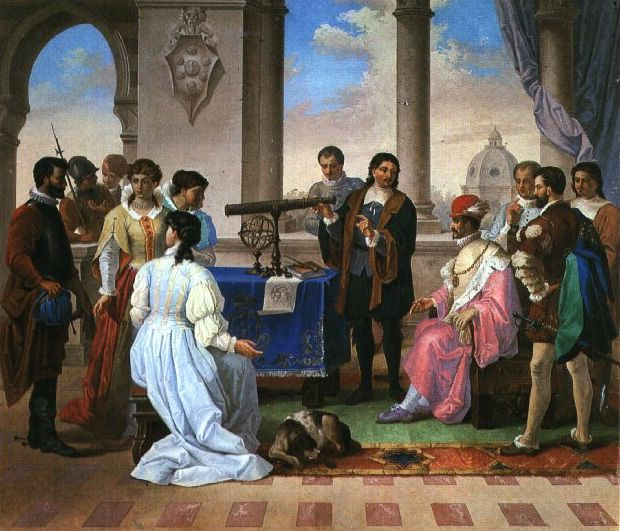 Paint representing Eustachio Divini describing the features of a particular telescope made by him to the Great Duke of Tuscany Ferdinando II dei Medici and his court.